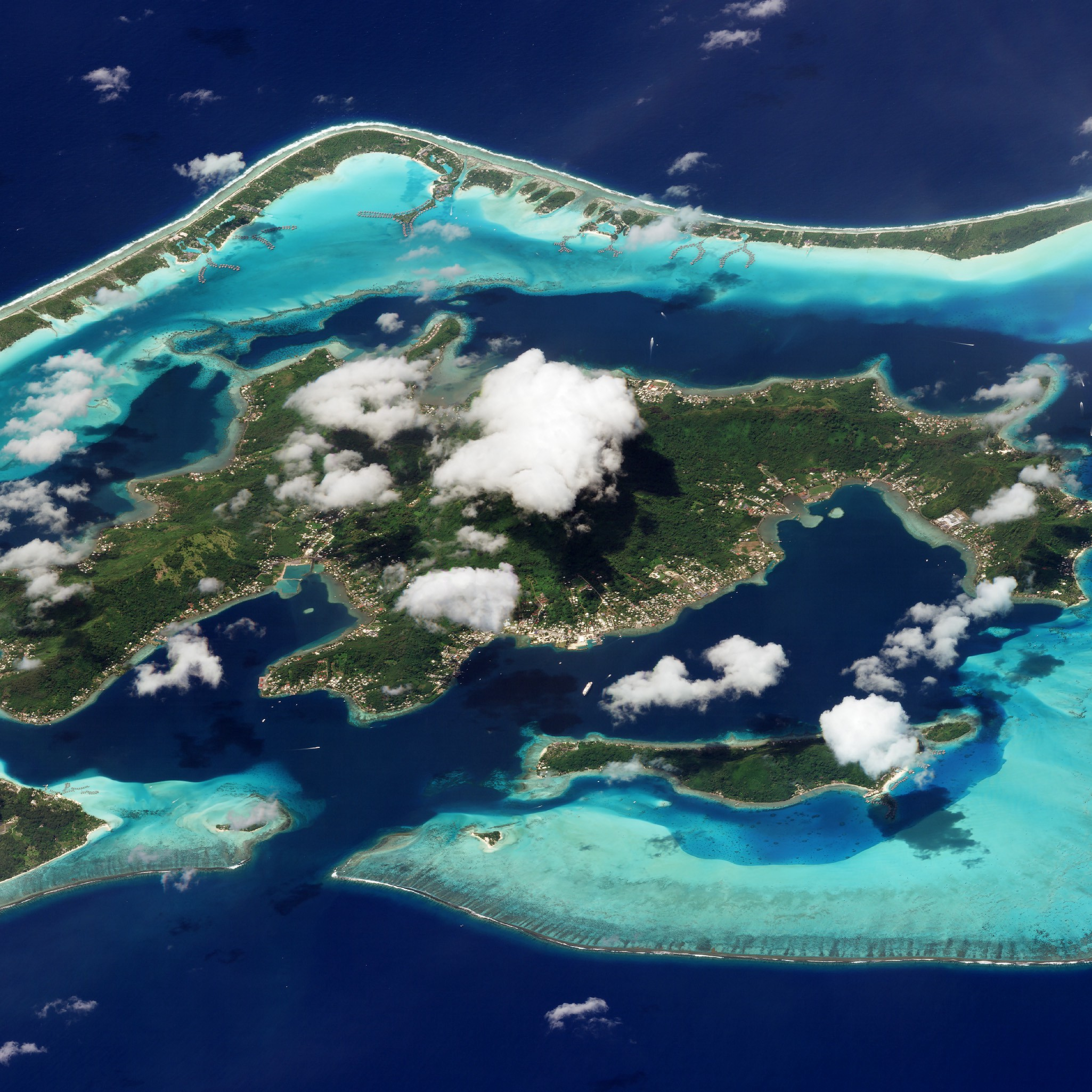 SkySat satellite image of Bora Bora